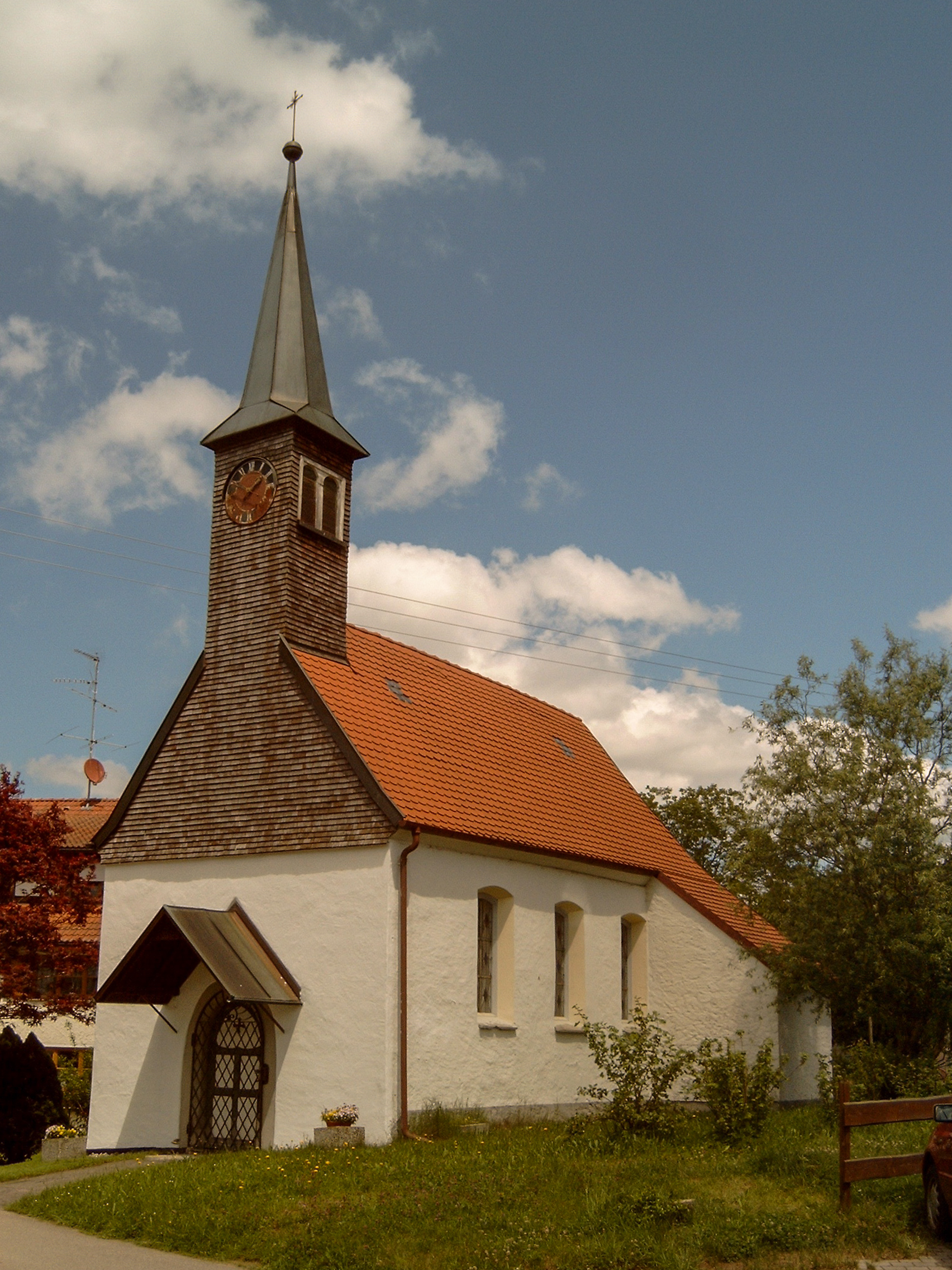 Schönau, chapel